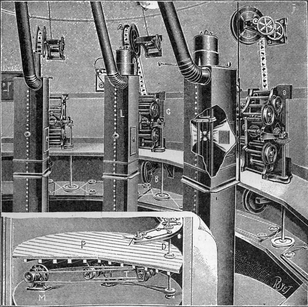 Illustration of projection mechanism for the Cineorama balloon simulation, 1900 Paris Exposition